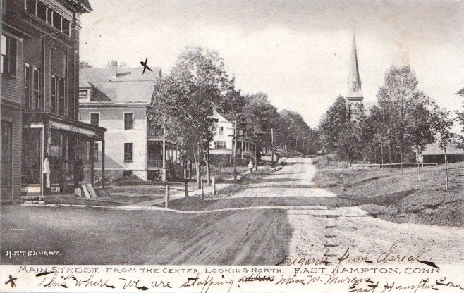 Postcard picture of Main Street, looking north in East Hampton, postmark: "CANCELED AUGUST 1907", according to store Web page